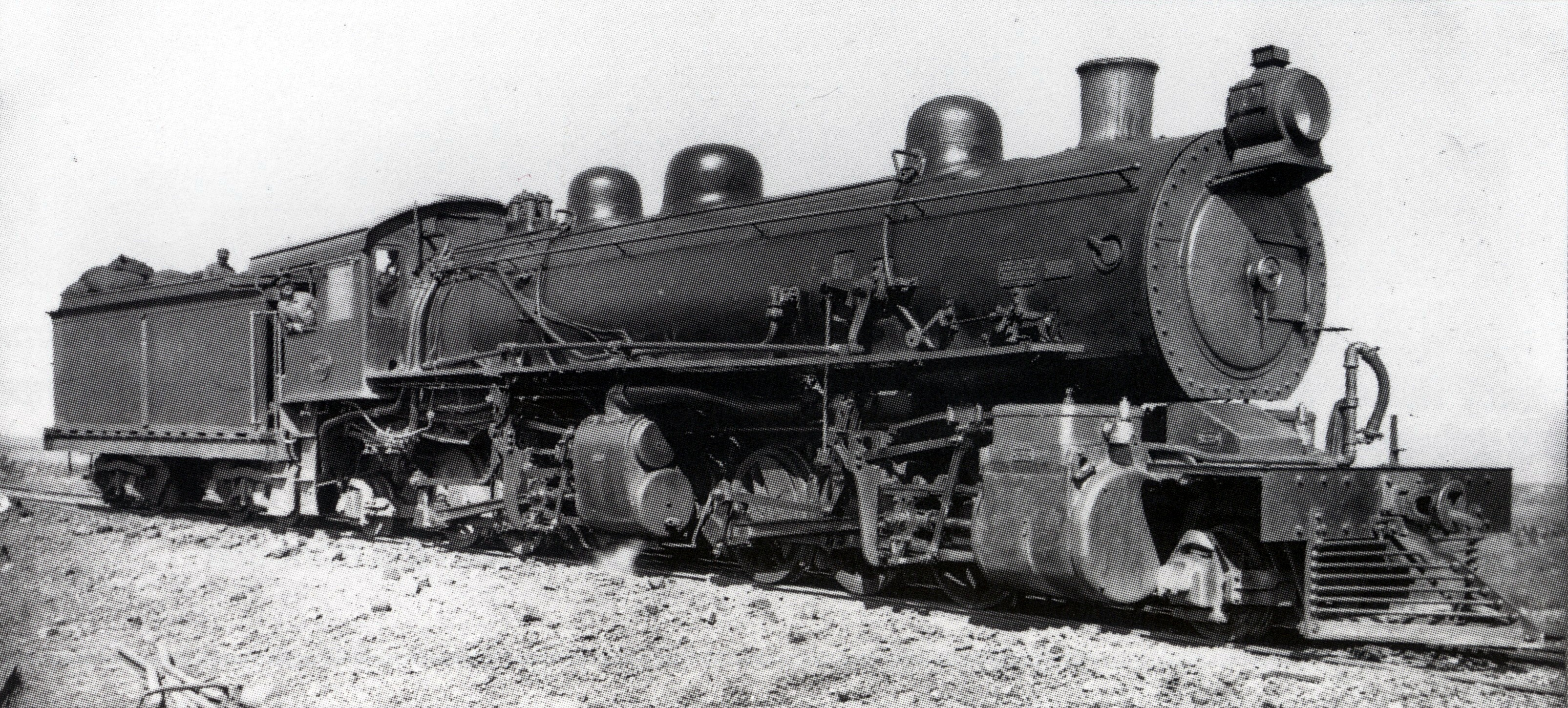 South African Railways Class MF no. 1620, still as a compound engine, before it was converted to simplex in 1923